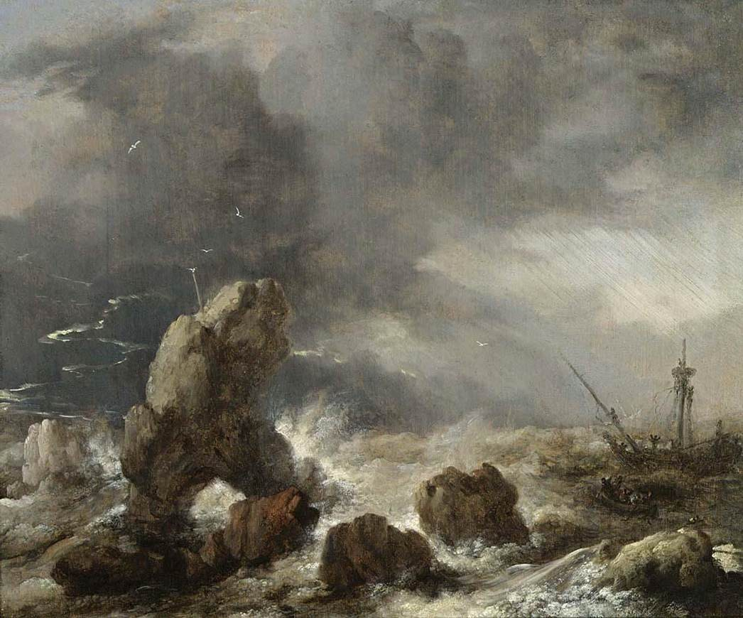 Ships in a Gail near a Rocky coast by Philips Wouwerman dated 1650-1652 on long term loan National Galleries of Scotland oil on oak panel - 19.5 x 22 cm Ger Eenens Collection The Netherlands